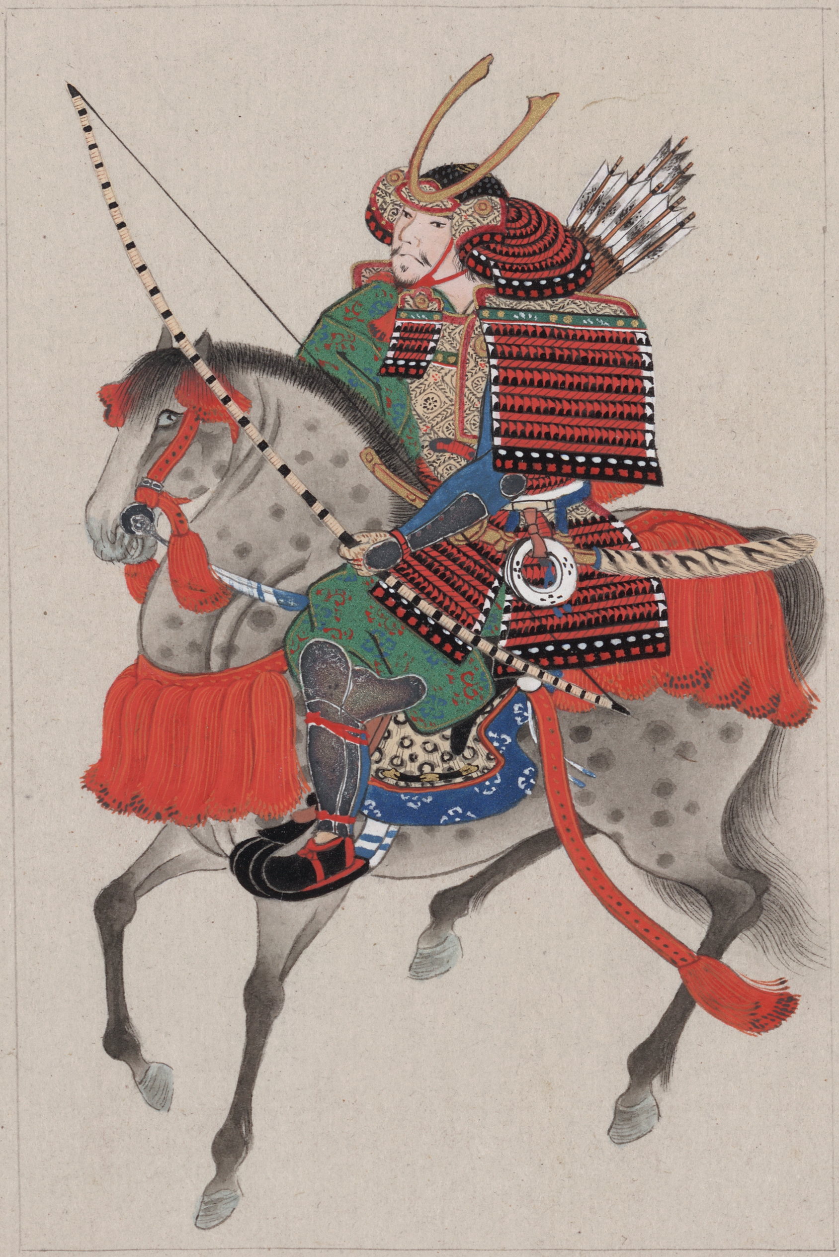 Samurai on horseback, wearing armor and horned helmet, carrying bow and arrows